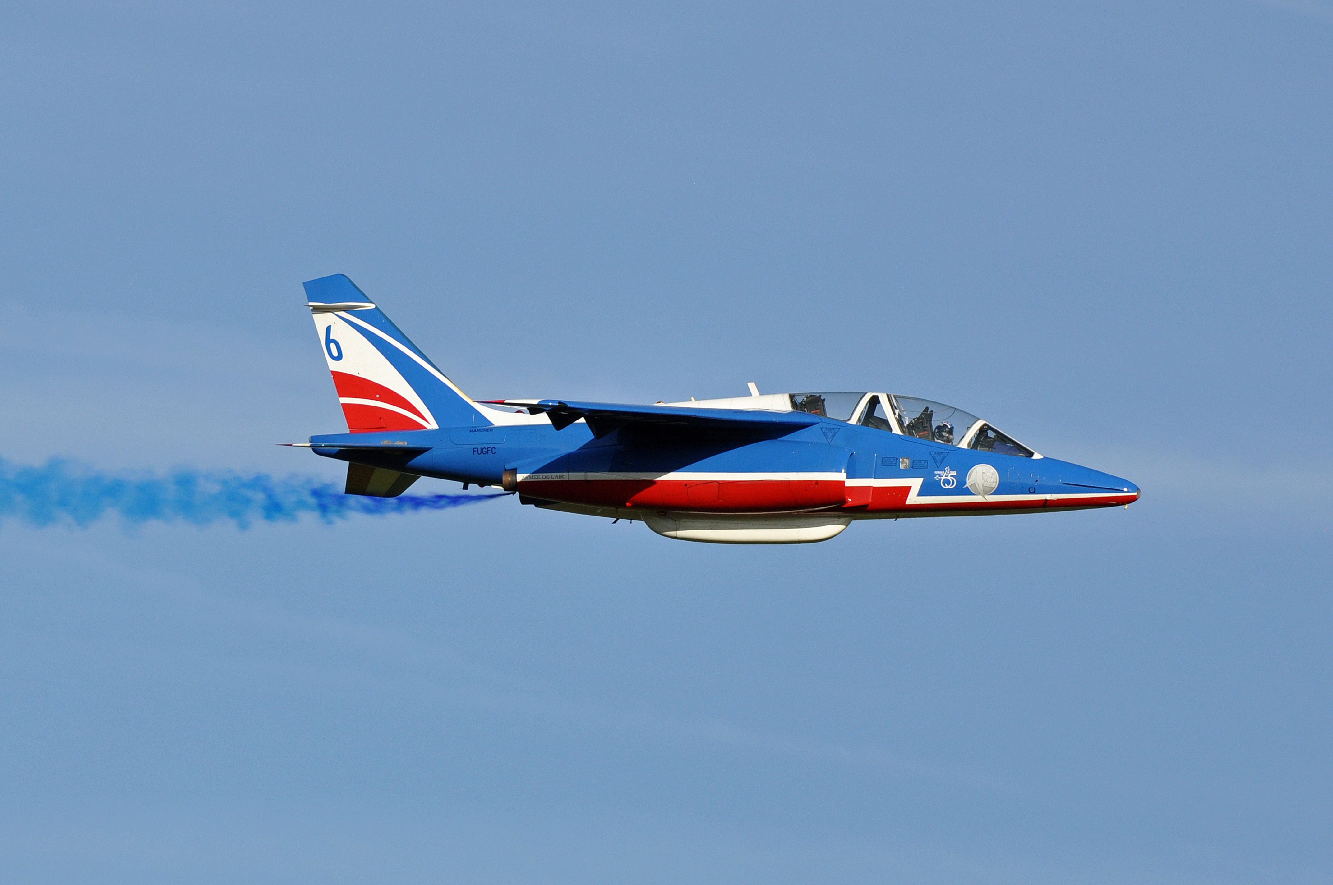 PATROUILLE DE FRANCE ALPHAJET PARISAIRLEGEND 2018